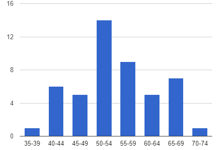 Age of Vice Presidents when assuming office